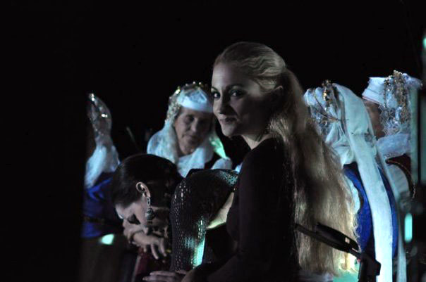 Eleni Vougioukli (right) captured on a musical performance at Prespes, Greece in 2009. Bent next to her is Souzana Vougioukli and in the background, the Chorus.